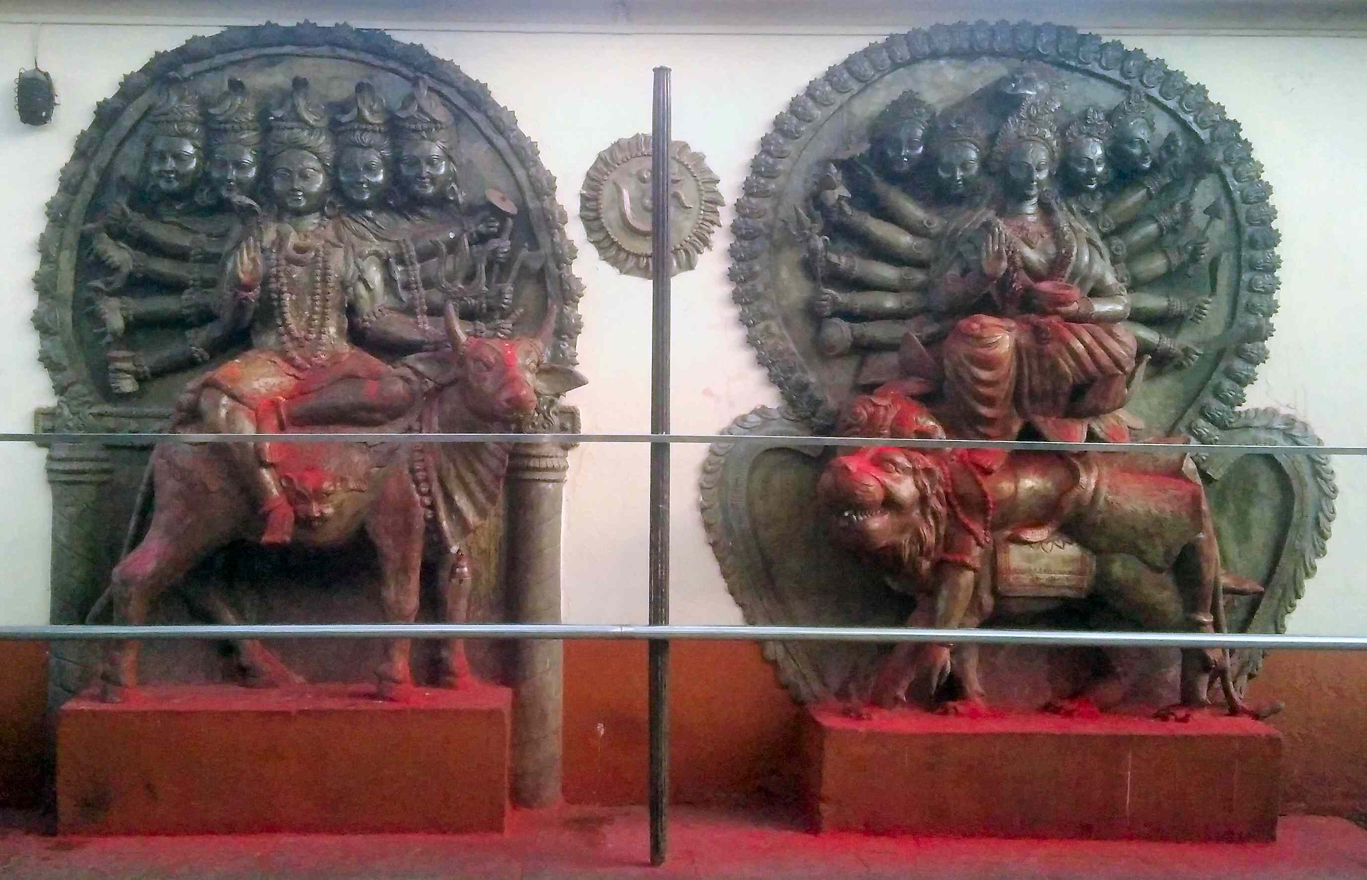 Both of the statues are carved out of two different stones and is fitted in outside wall of the Kamakhya temple.